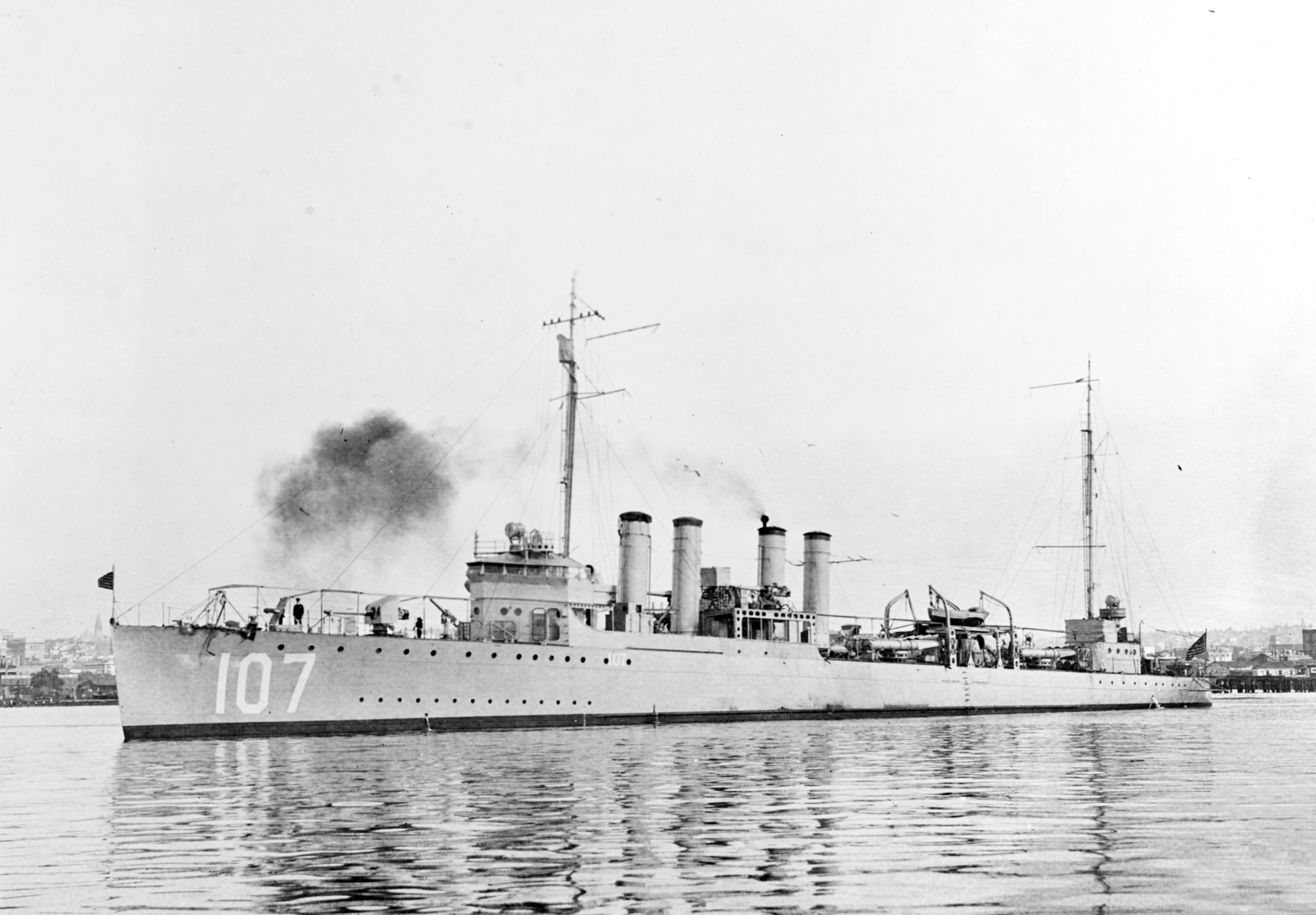 The U.S. Navy destroyer USS Hazelwood (DD-107) in harbour, circa 1919.